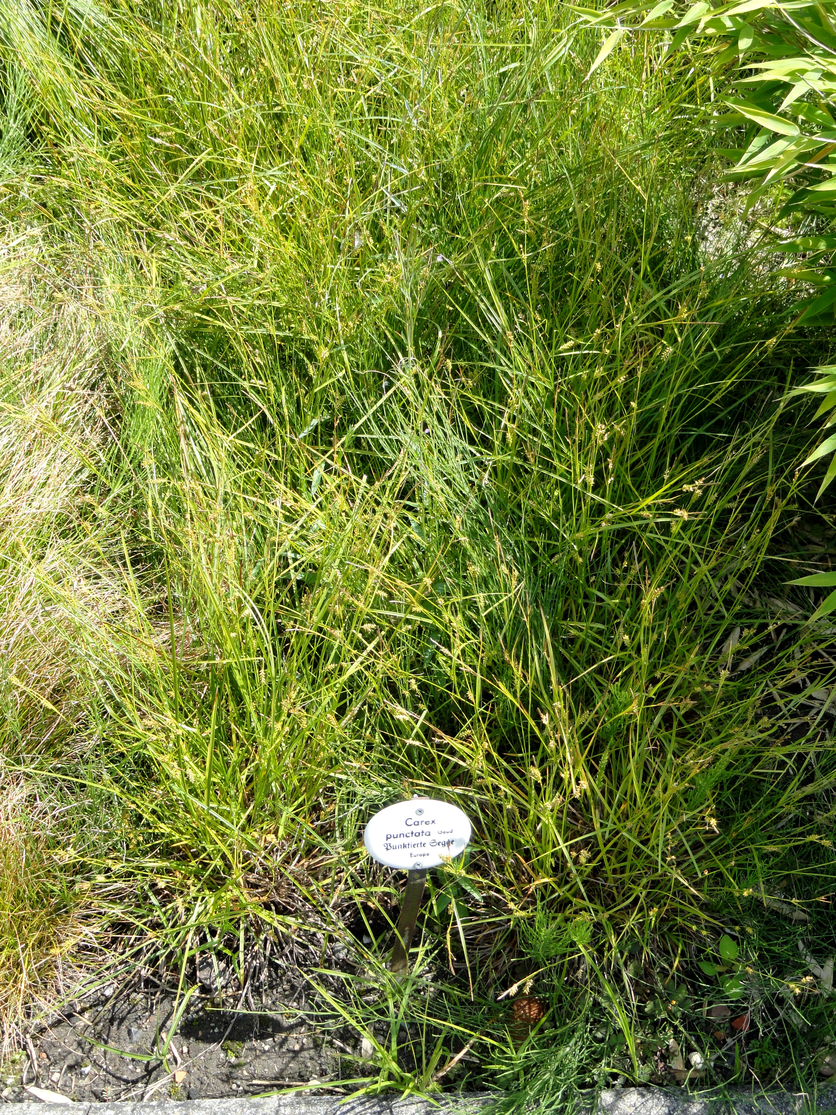 Botanical specimen in the Botanischer Garten, Frankfurt am Main, located at Siesmayerstraße 72, Frankfurt am Main, Germany.